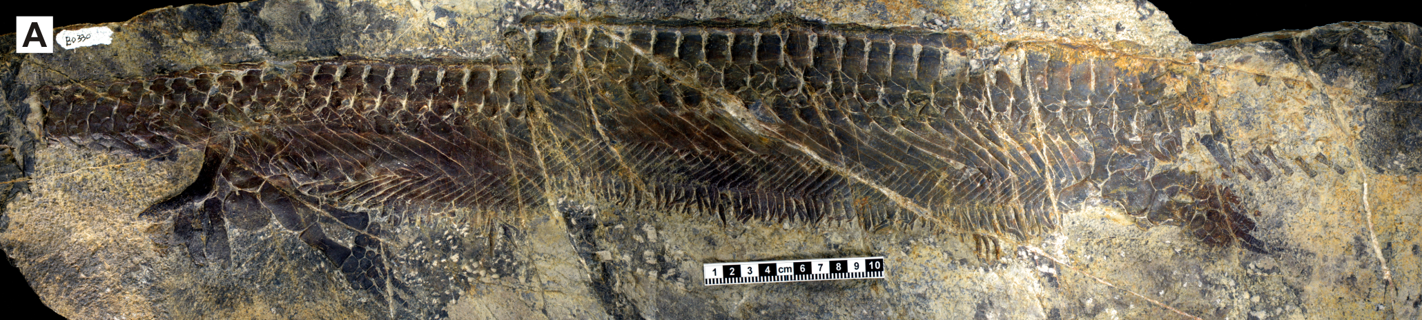 Holotype of Parahupehsuchus longus (WGSC 26005). Scale is 10 cm long.